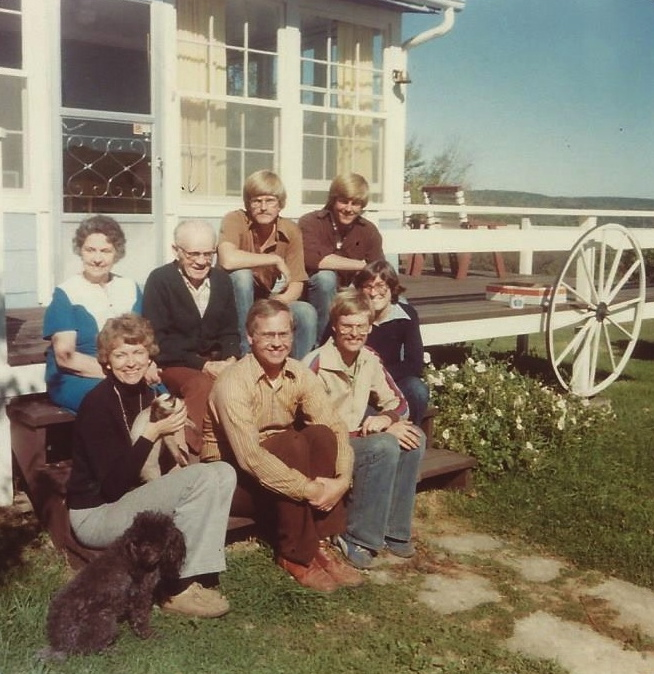 Old photo of the Klapmeier family in the 70's at their rural Wisconsin farmhouse. (Dale at the top right corner, Alan to the left of him.)